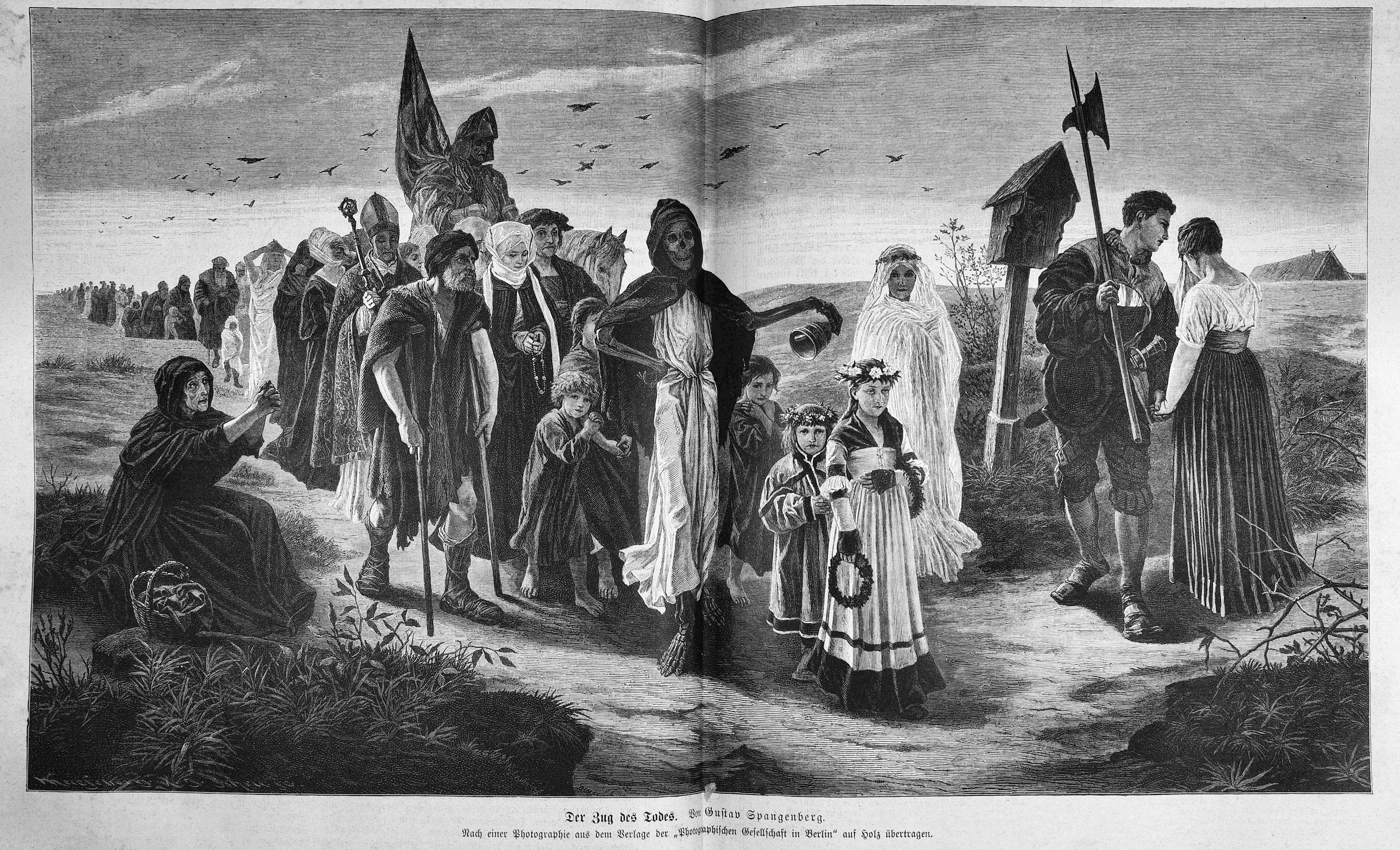 caption: "Der Zug des Todes. Von Gustav Spangenberg. Nach einer Photographie aus dem Verlage der „Photographischen Gesellschaft in Berlin“ auf Holz übertragen."